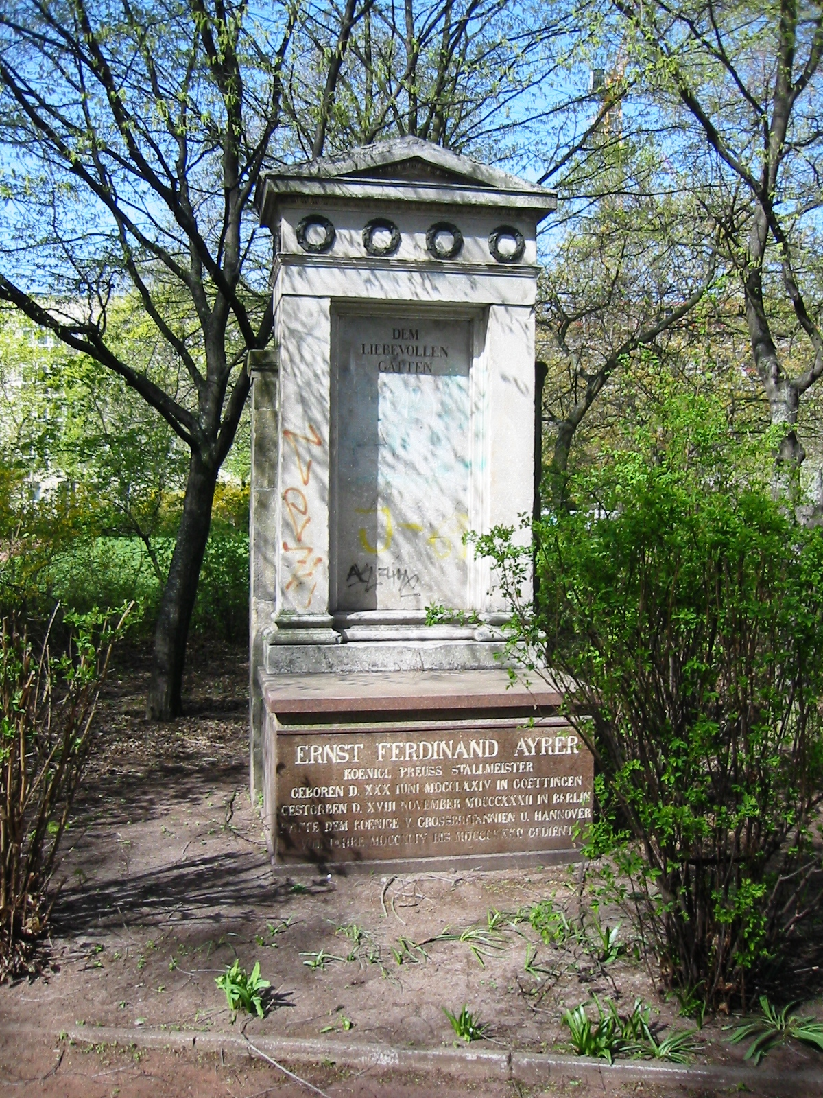 Tomb of the Ernst-Ferdinand Ayrer Waldeckpark in Berlin-Kreuzberg (Germany)